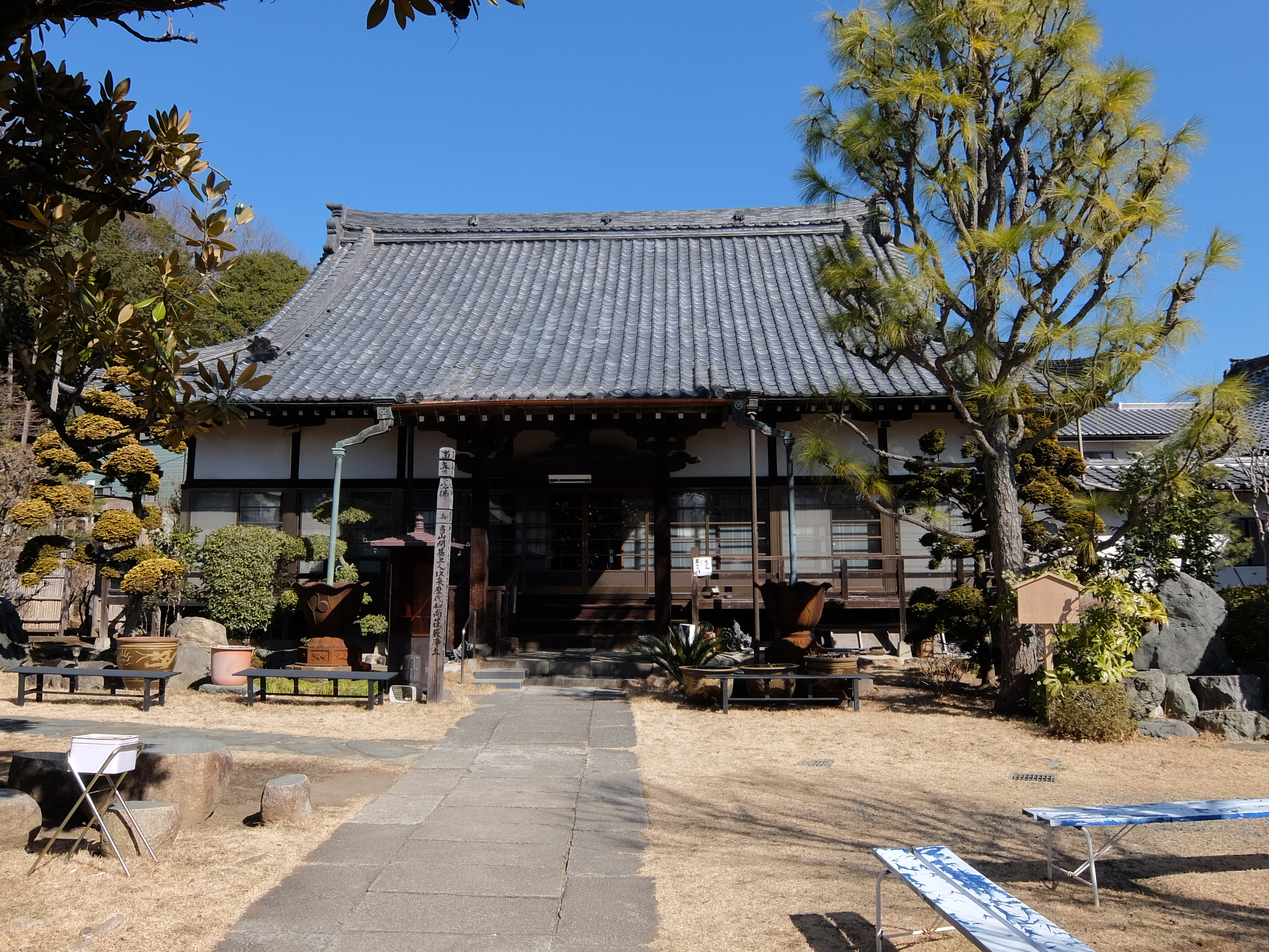 Shorenji temple in Gunma Prefecture Kiryu Japan